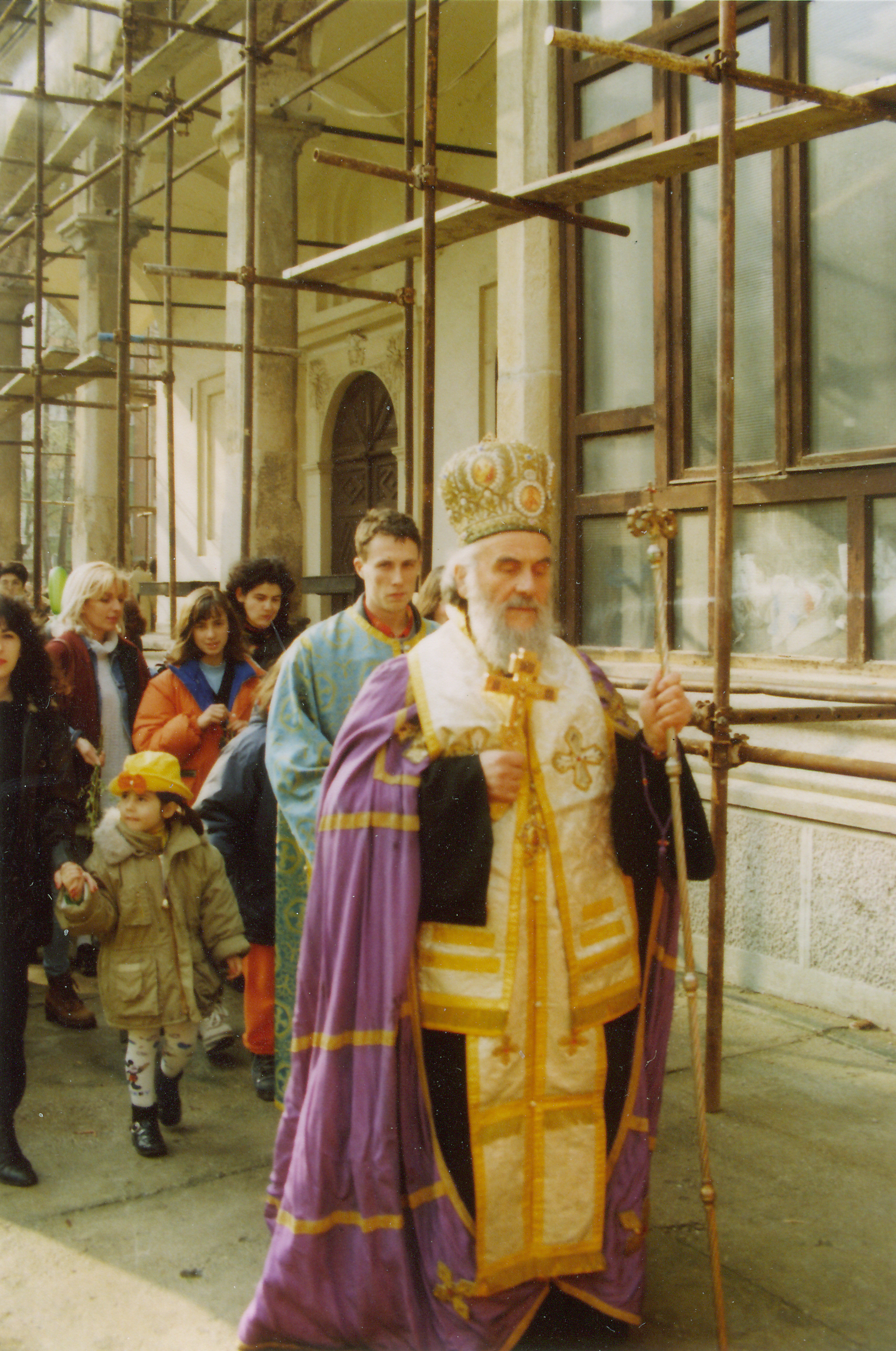 Bishop of Niš Irinej (since 2010. he is a Patriarch of the Serbian Orthodox Church) at the helm of liturgy, during the reconstruction of the Orthodox Cathedral in Niš (Serbia) 2006.